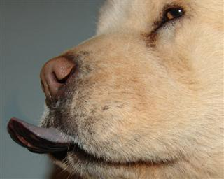 "Picture taken by myself of my Chow-Chow's tongue" Photo: User:Ebi